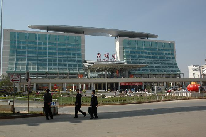 Kun Ming Railway Station, Yunnan China